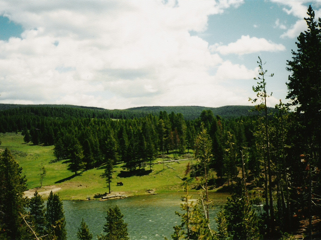 Yellowstone national park